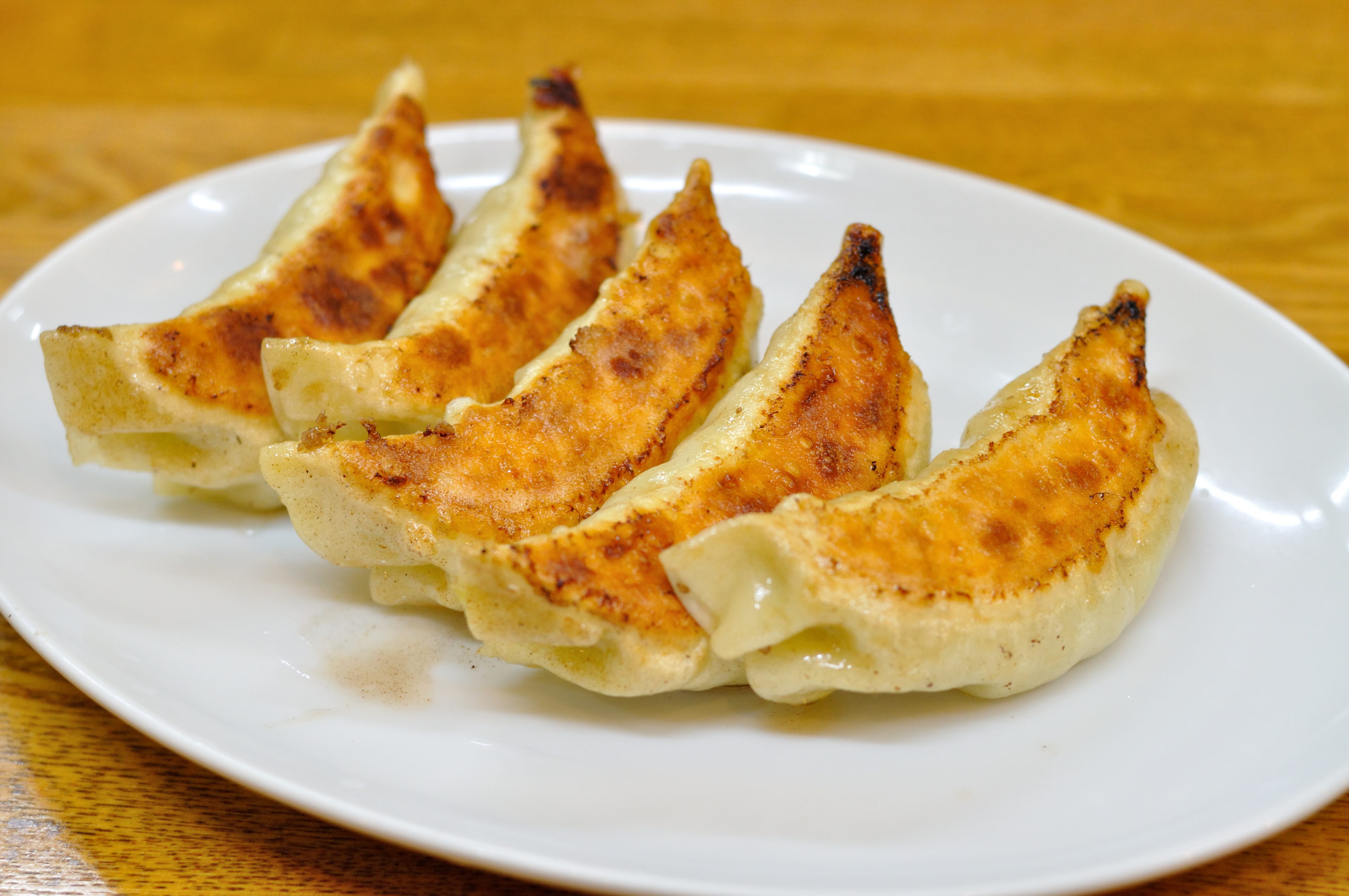 Yaki-Gyōza in Utsunomiya